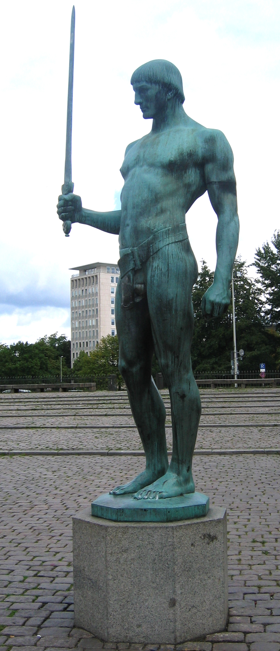 Sculpture by Adolf Brütt (1855-1935), titled "Schwertträger" (swordbearer). Location: Kiel, Germany (in front of the Town Hall).